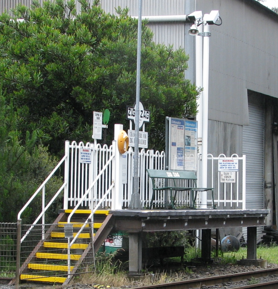 Zig Zag Railway Station, near Lithgow, New South Wales, Australia